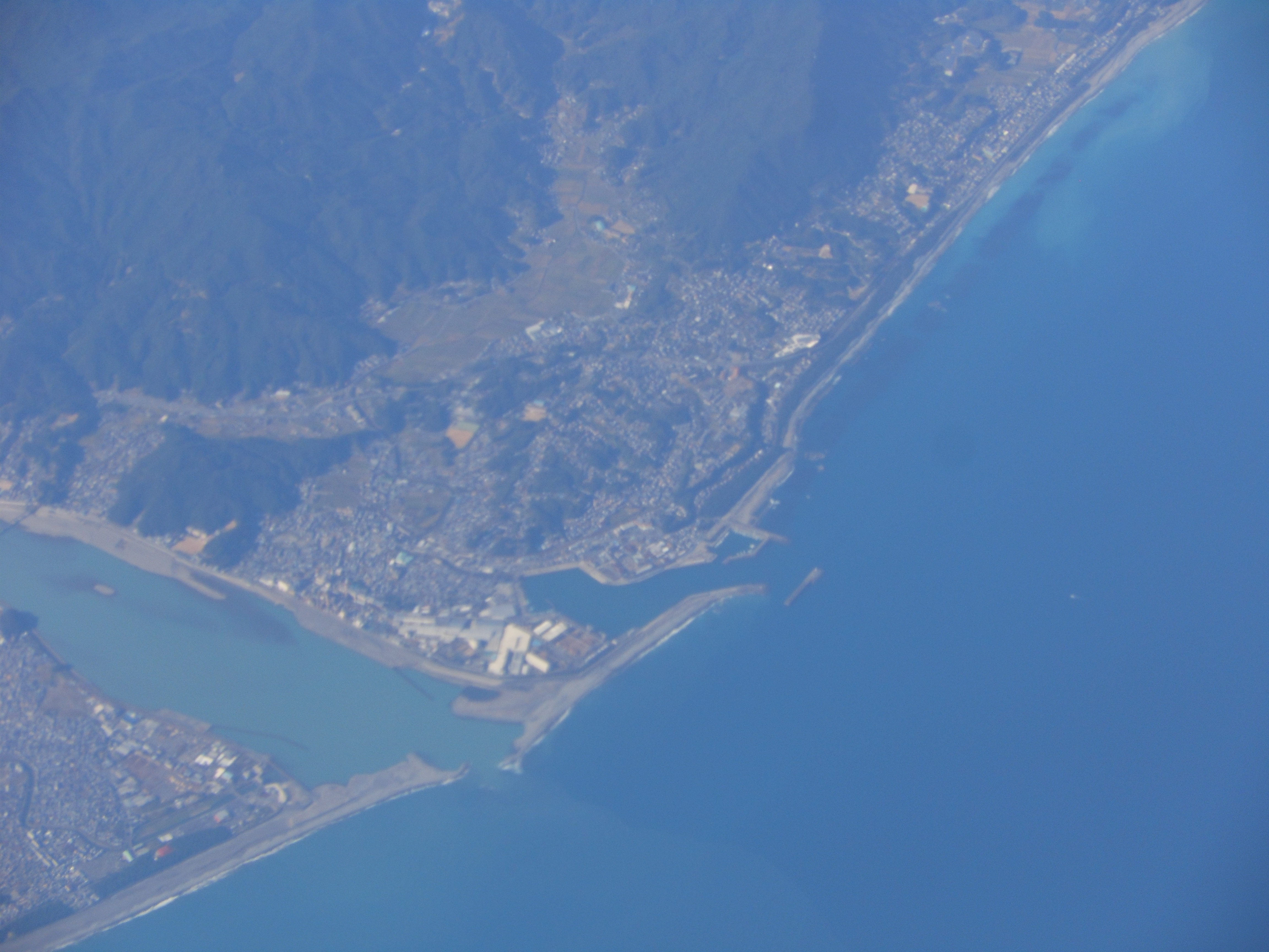 This photo is Udono, Kiho town, Mie prefecture, Japan. It was taken from an airplane.